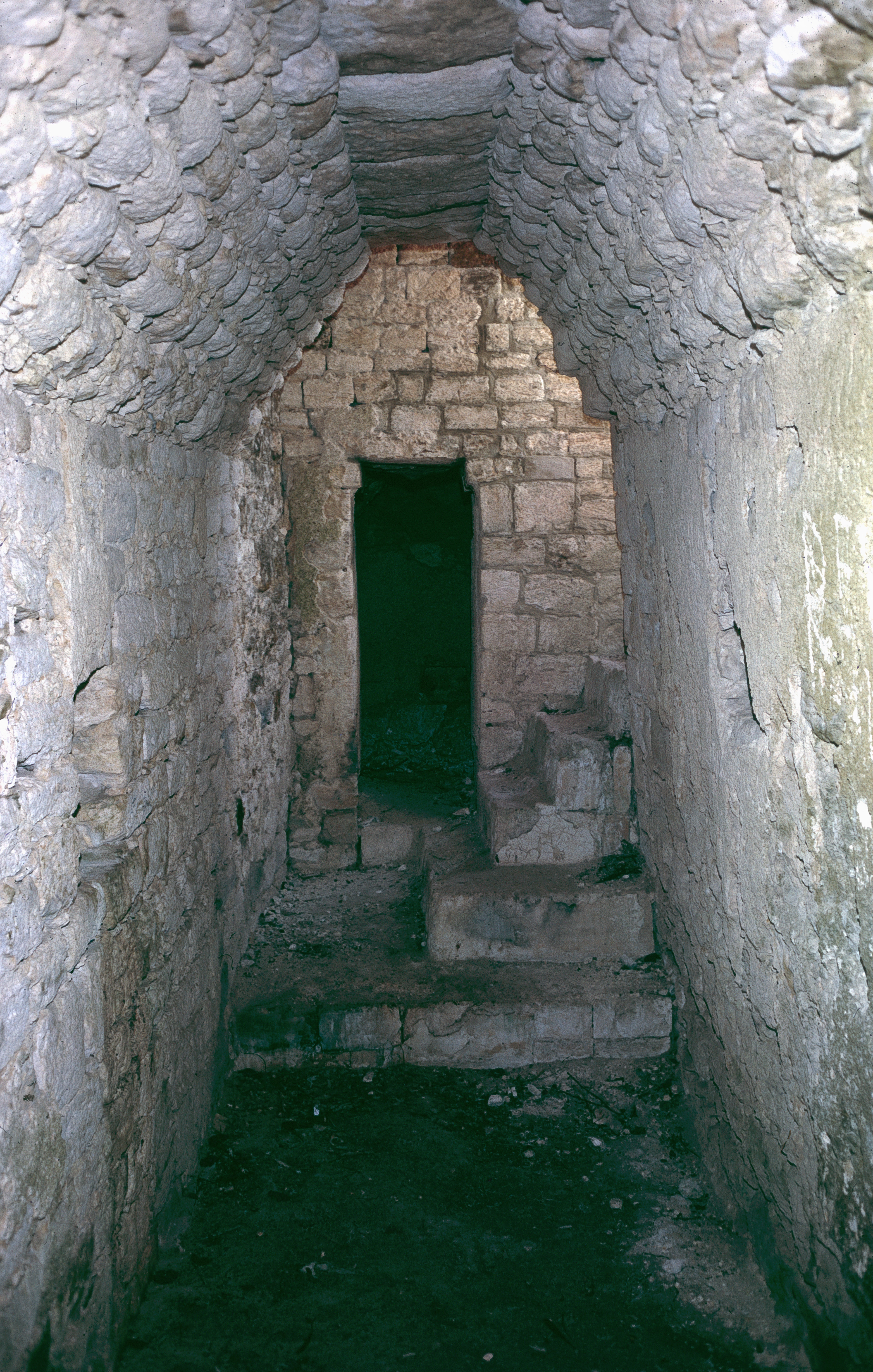 Becan, Campeche, Mexico: Building IV, court at the uppermost level